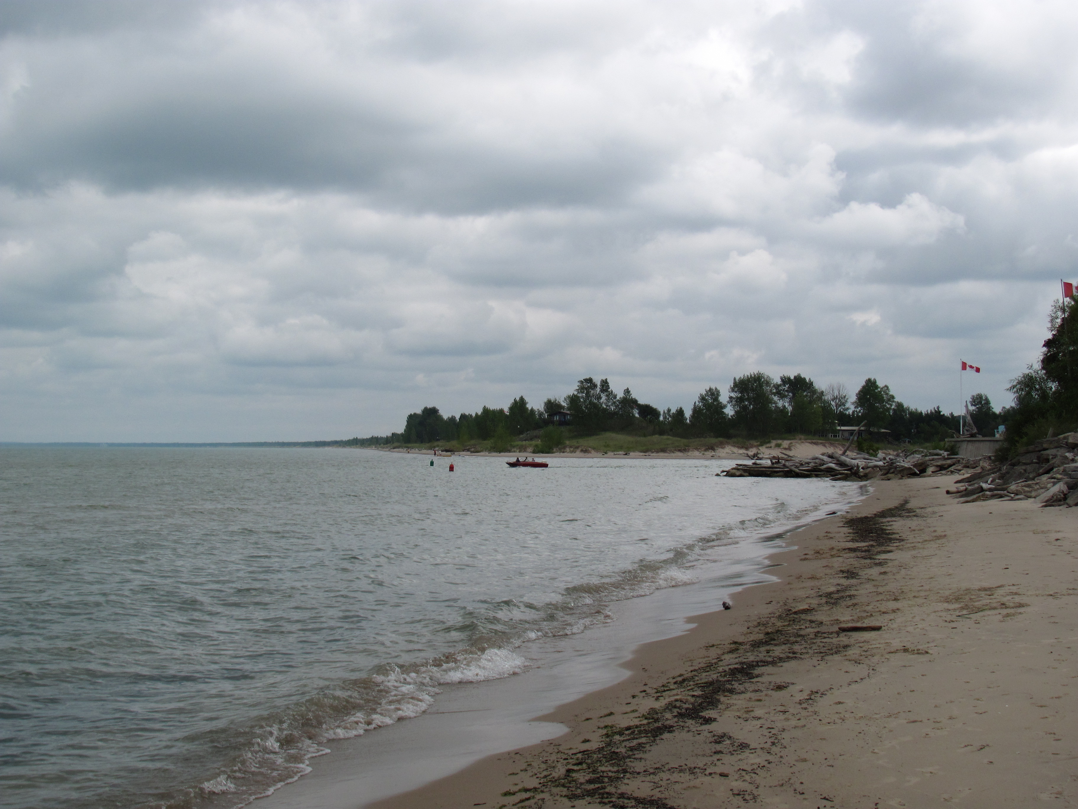 This photograph looks northward from the Windsor Park Beach looking toward the mouth of the Ausable River at Port Franks, Ontario, Canada.